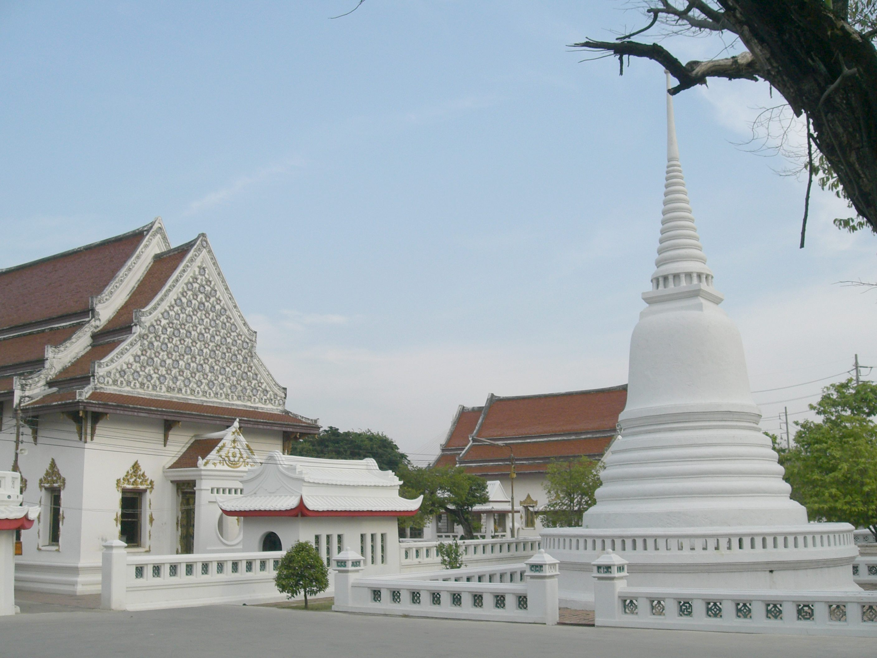 Chinese-style viharn and Thai-style chedi at Wat Prot Ket Chettharam, Samut Prakan province, central Thailand (see: Phra Pradaeng)